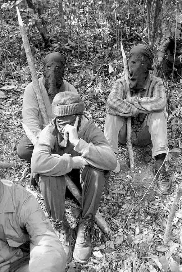 TDR EP guerrillas gathered in the Sierra de Guerrero